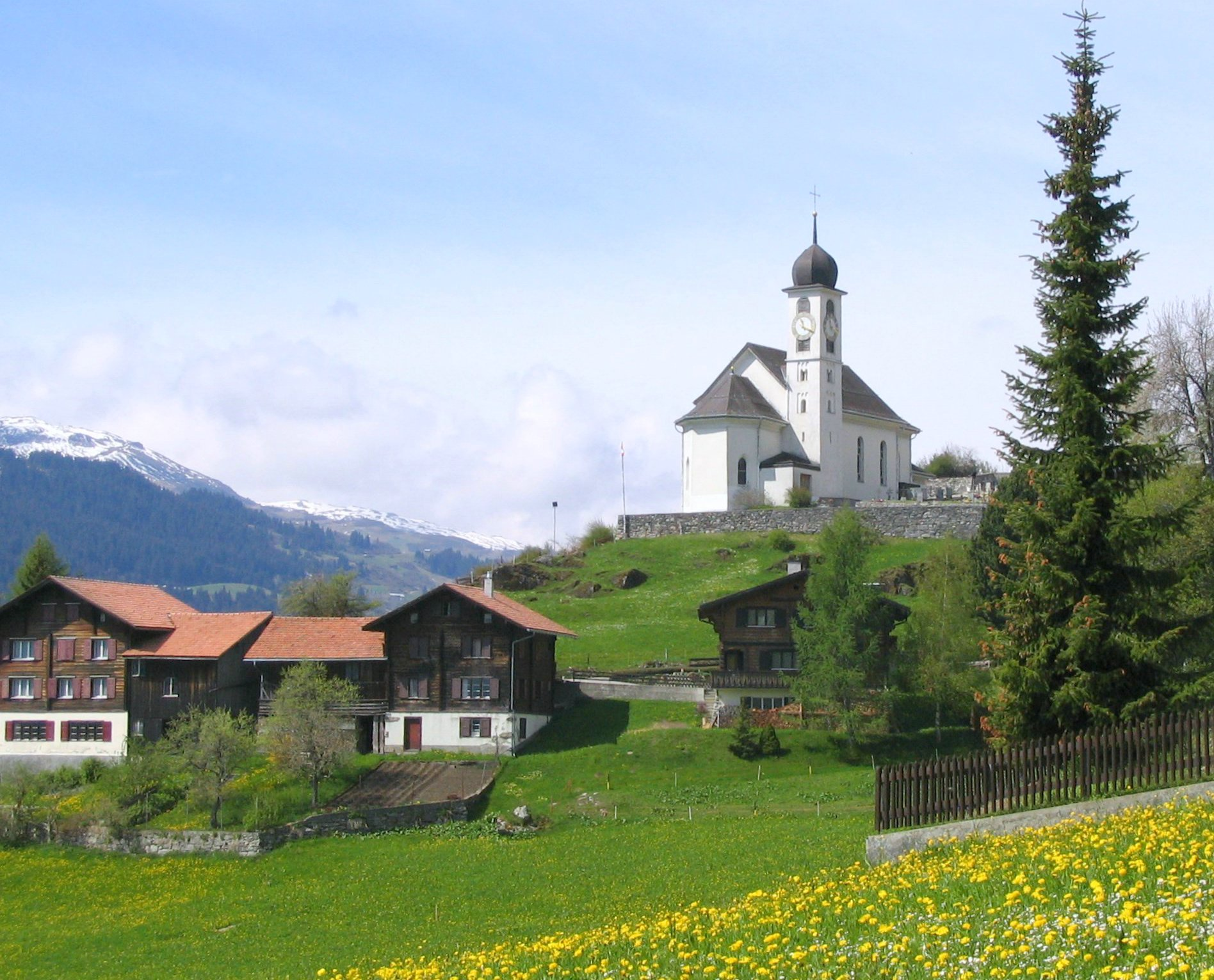 Scenic view of some old village houses topped by the church S.Gieri in Ruschein, Surselva, Switzerland. Taken by myself with a Canon PowerShot A75.